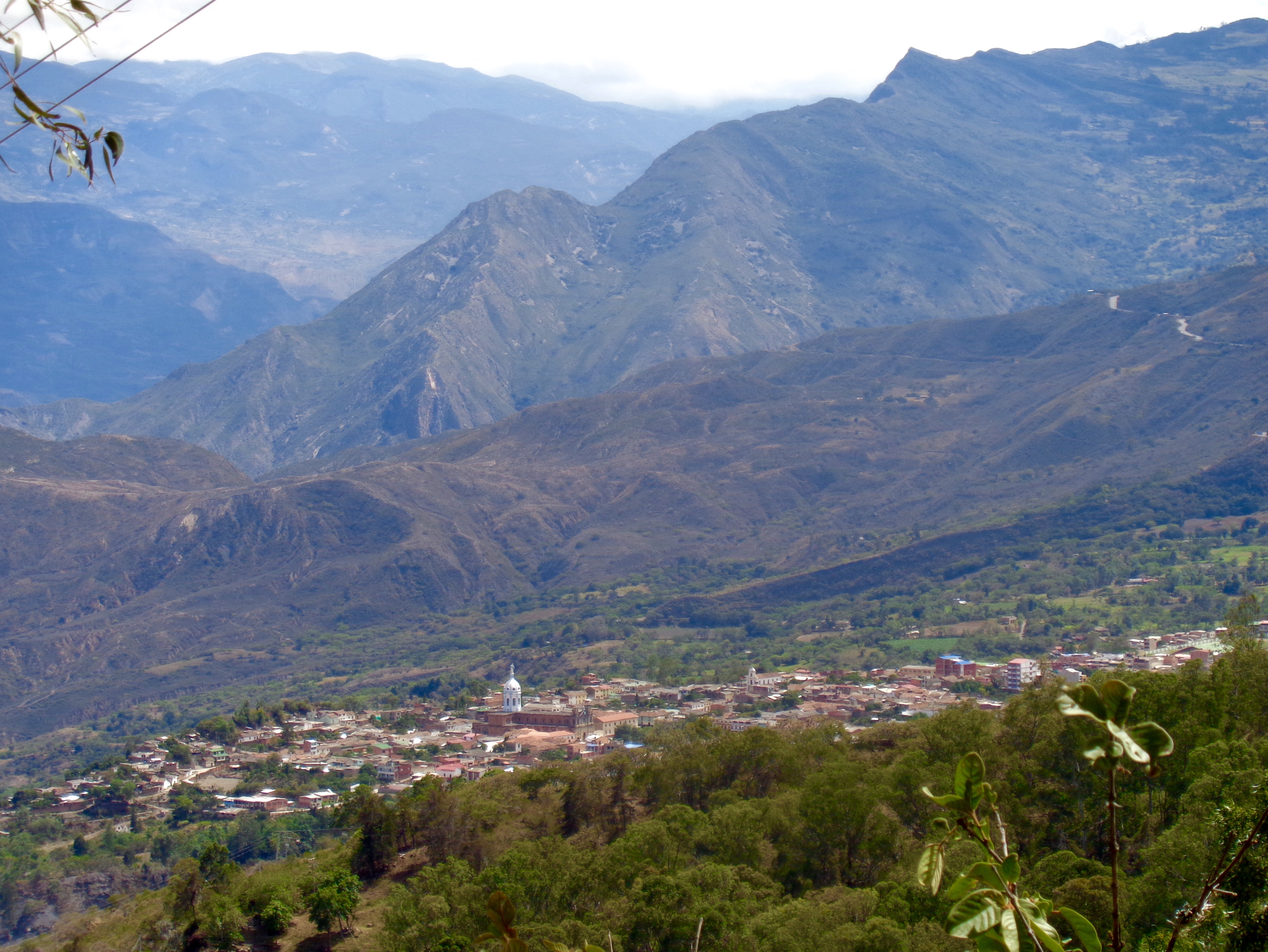 Soatá a orillas del Cañón del Chicamocha, capital de la provincia del Norte del departamento de Boyacá.